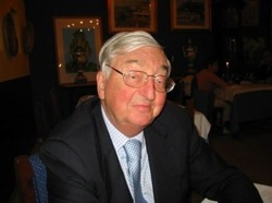 Portrait of Alain de Weck ca. 2008